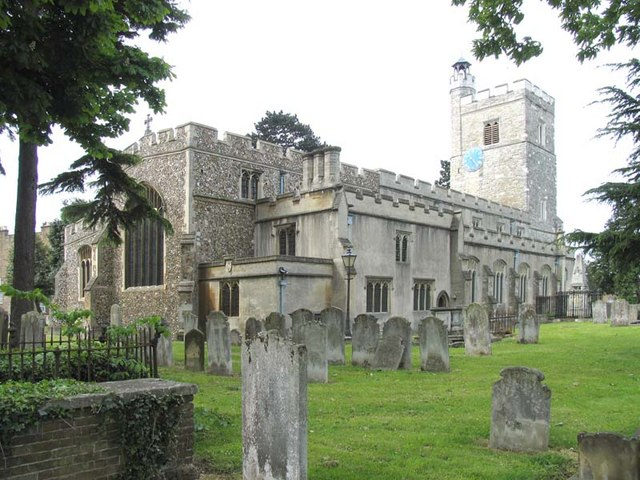 Church of St Mary, Cheshunt, Hertfordshire, England